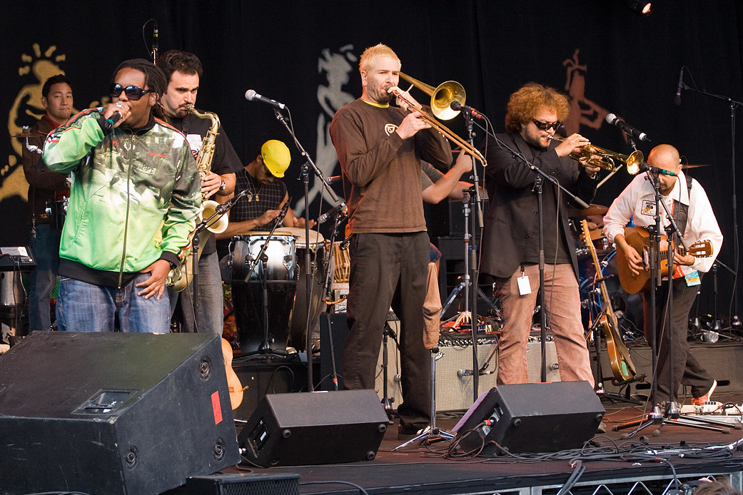 Ozomatli performing at the Edmonton Folk Fest in 2007.